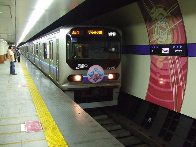 りんかい線大井町駅に停まる 70-000系 撮影日：2006年 8月11日 撮影地：東京臨海高速鉄道りんかい線大井町駅（東京都品川区大井） 撮影者：cory TWR 70-000 Series Train (for Shin-Kiba), at Oimachi Station. Date: 2006-08-11 (Aug 11, 2006) Place: TWR Oimachi Station, Oi Shinagawa Tokyo, Japan. Author: ISAKA Yoji (cory)